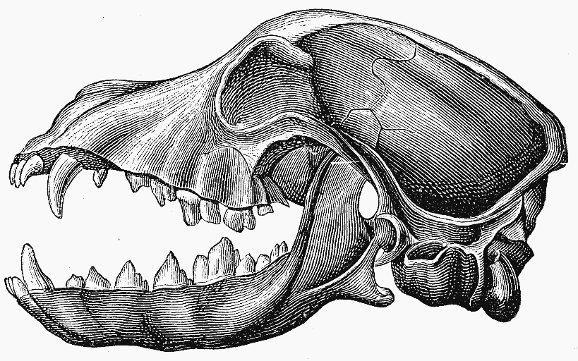 Skull of a dog.